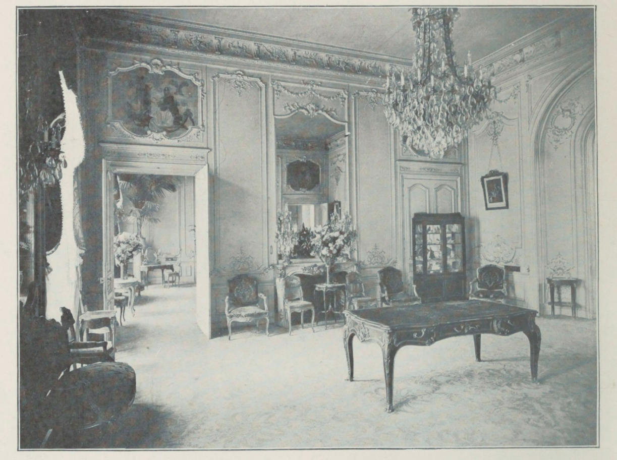 Maison Beer, photographic print of one the showrooms of the fashion house in Paris, at 7 Place Vendôme, with 18th Century's furnitures.